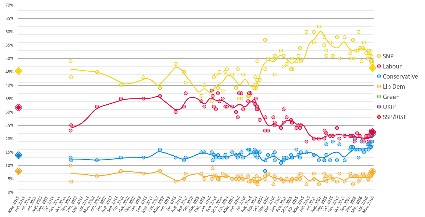 Opinion polling for the 2016 Scottish Parliament election (constituency vote) with average 30 day trendline.